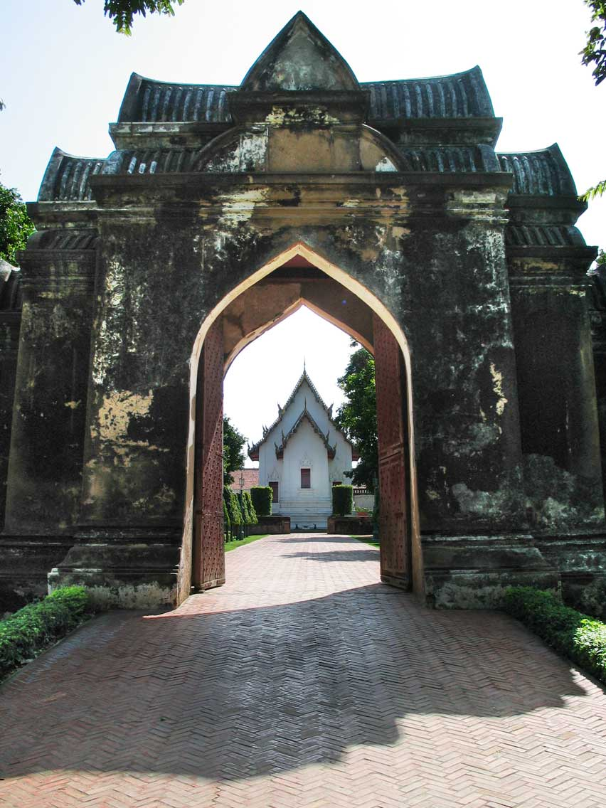 Phra Narai Ratcha Nivet, palace of King Narai, Lopburi, Thailand